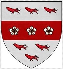 Arms of the Washbourne family of Washbourne & Wichenford - "Argent on a fess between six martlets gules three cinquefoils of the field". When the vast estates that Urse d'Abitot had accumulated were usurped from his son Roger, a substantial portion of the same, including the lands of Little Washbourne, were ultimately bestowed upon his sister's husband, Sir Walter Beauchamp of Elmley. The Washbourne family that resided at Little Washbourne thereafter, did so as under-tenants to their now over-lords, the Beauchamps of Elmley Castle. The arms for this branch of Beauchamps' were "Gules a fess between six martlets or". Sir John d'Wasseburne, formally of Dufford, son of Sir Roger, is the first Washbourne to be suggested as having borne the Beauchamp "a fess between six martlets" arms, changing the tincture's to the Washbourne colors of Argent and Gules as shown. "Gules a fess between six martlets or". The arms for Sir Walter Beauchamp of Elmley Castle, bore a red shield with gold fess and martlets, and the Washbournes' bore a silver shield with red charges. This feudal homage was also borne by and recorded for several other families. Members of the Wysham, Walshe, Waleys, Burdett, Blount, Cardiff and other families, all bore these "fess between six martlets" arms, in differing tinctures. All of these other families are recorded as marrying into the Beauchamp family.